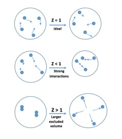 A figure showing a graphic representation of the compressibility factor.